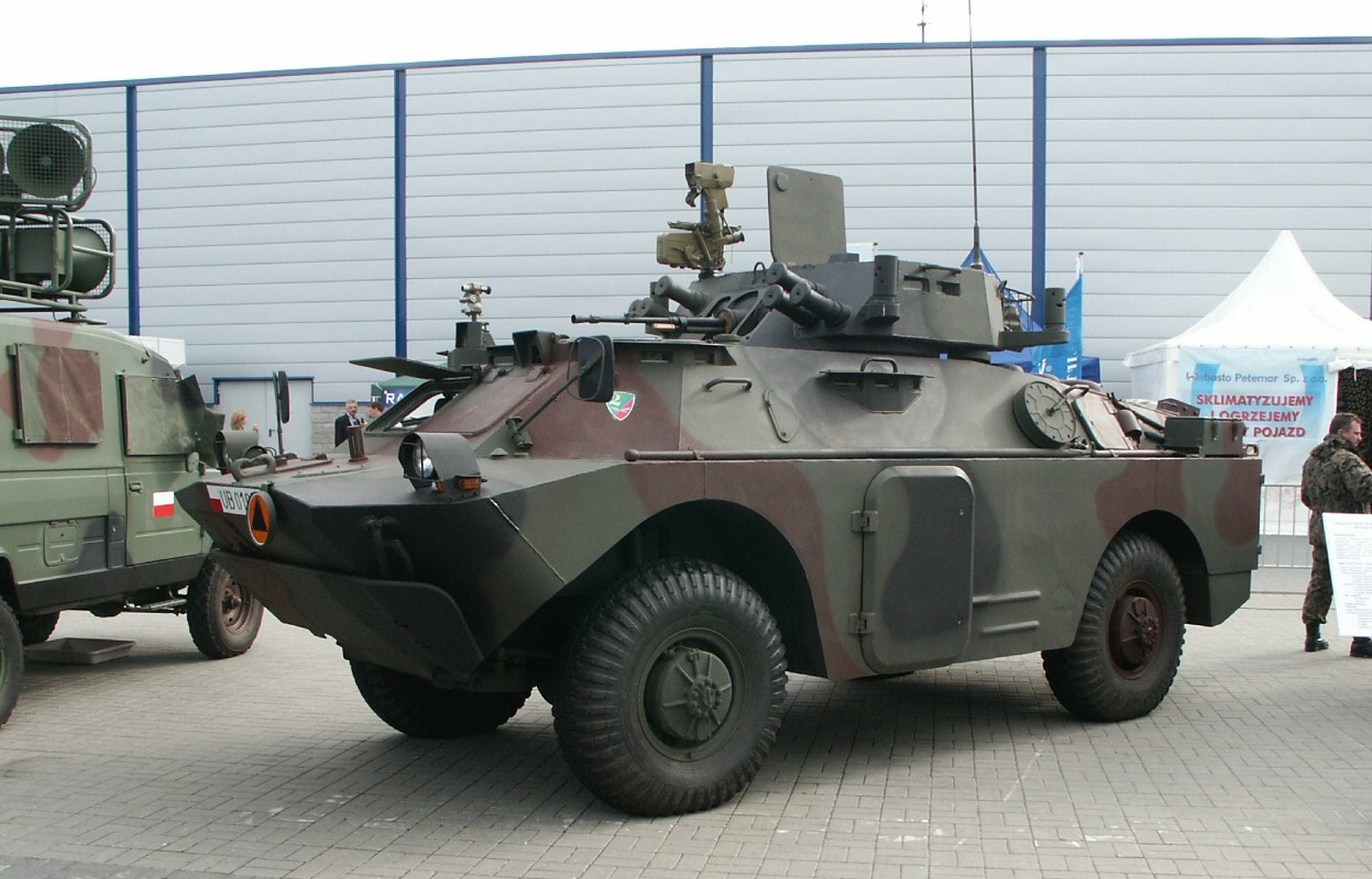 Polish Army's BRDM-2B (M97) Żbik-B - Polish modification of BRDM-2.